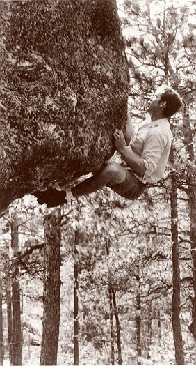 Gill bouldering a first ascent on the Scab of the Needles of the Black Hills of SD in 1963